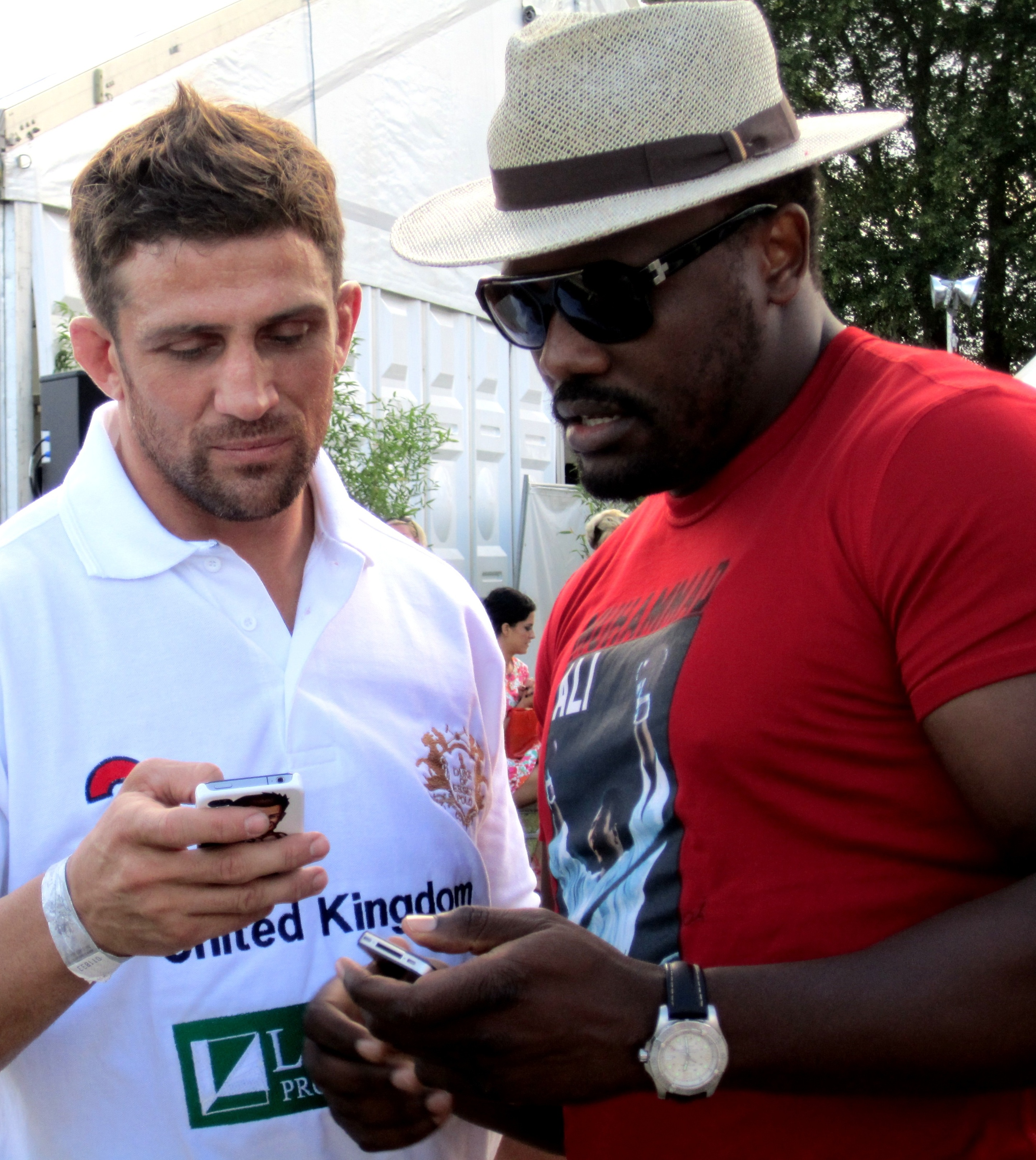 Derek Chisora [right], a British boxer with Alex Reid [left].